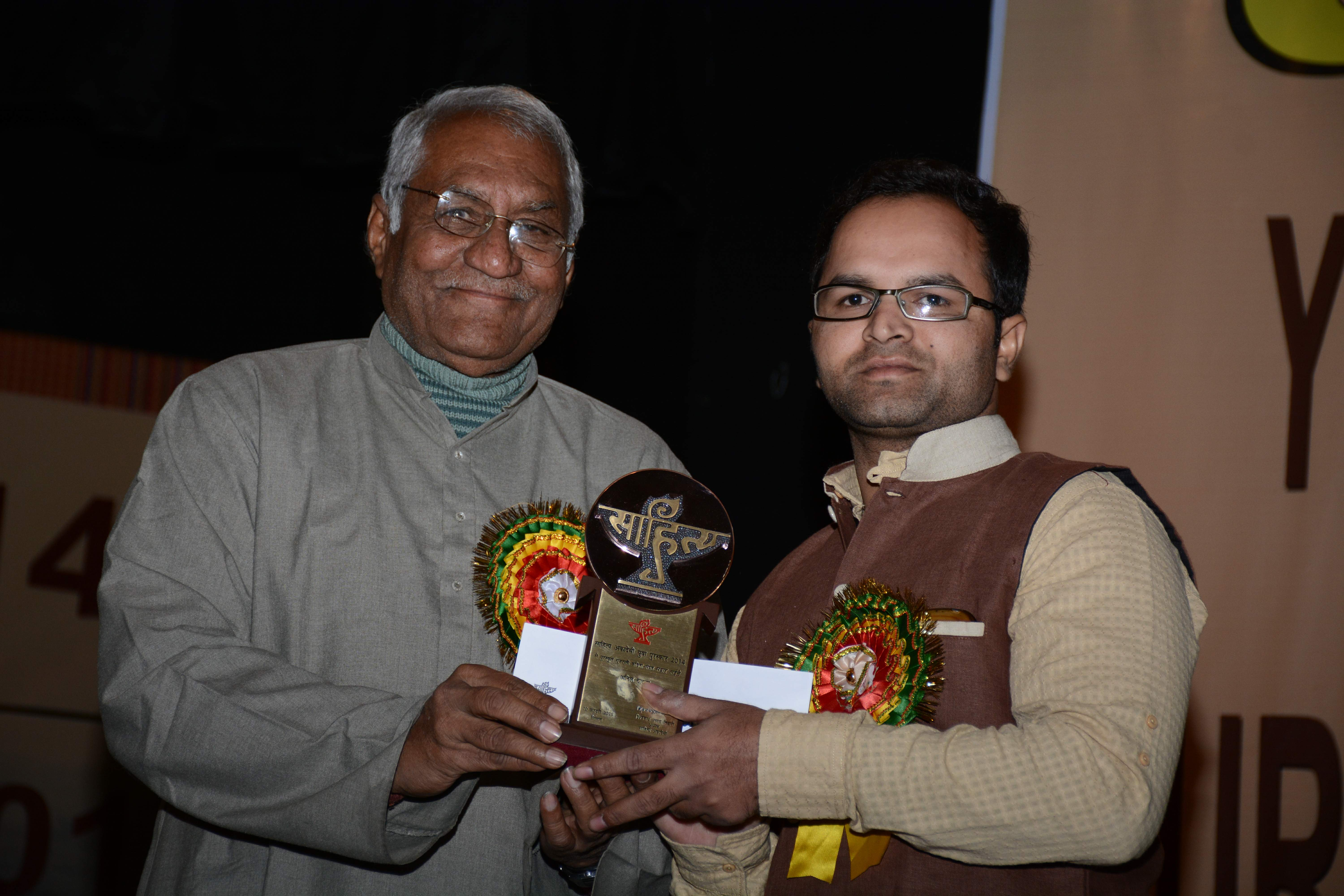 Anil Chavda at New Delhi on The event of Yuva Puraskar ceremony - 2014